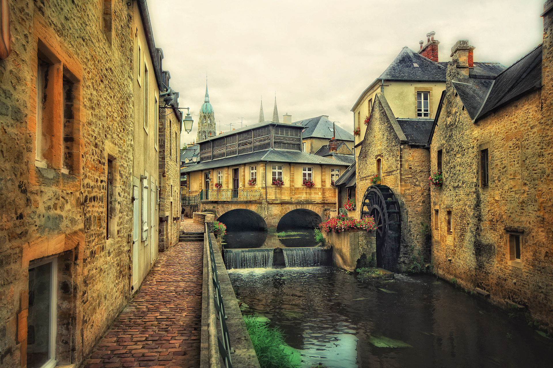 Bayeux historic centre: office of tourism and Bayeux cathedral